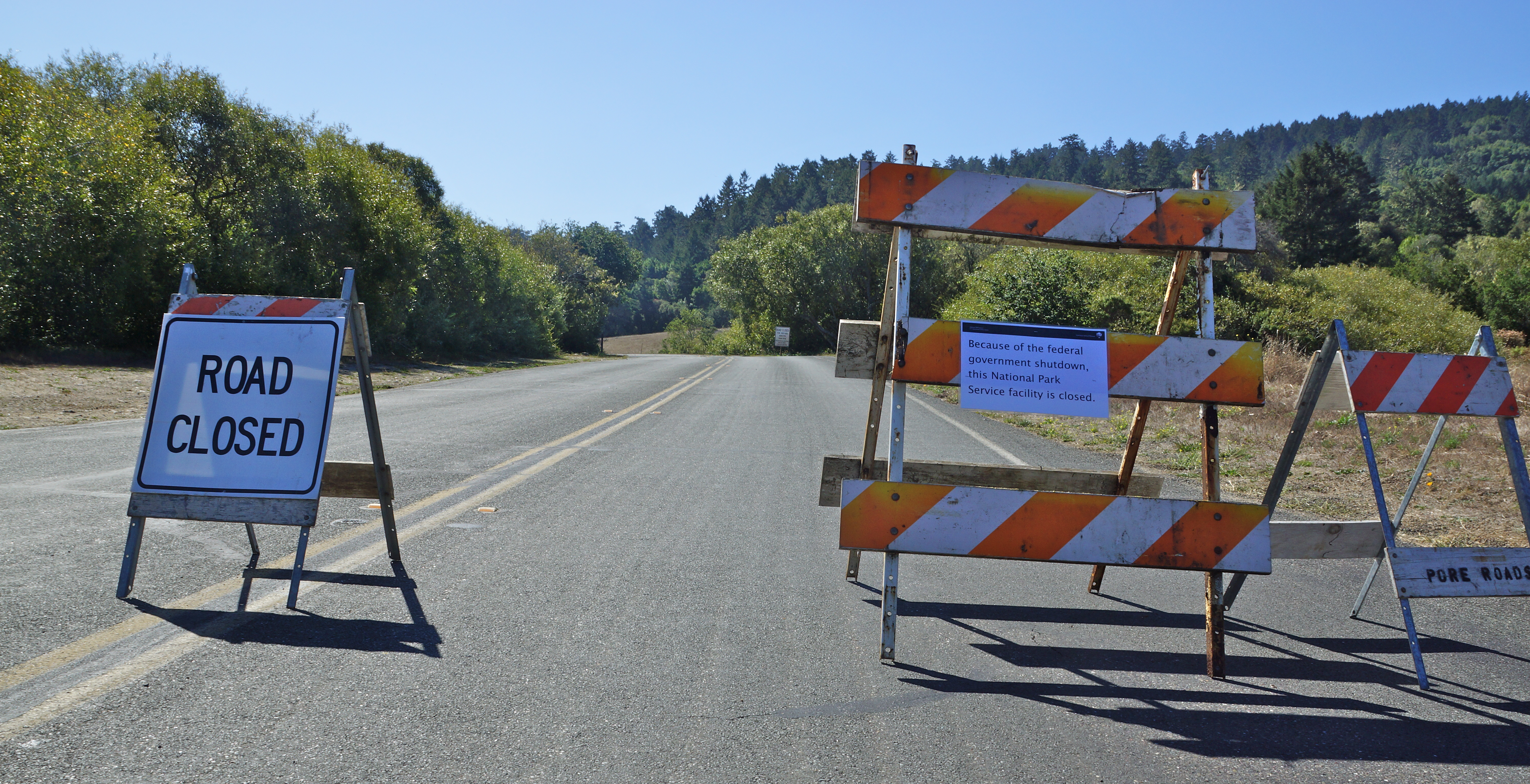 Point Reyes Station (Point Reyes National Seashore), United States: Closure of the National Seashore after United States federal government shutdown of 2013